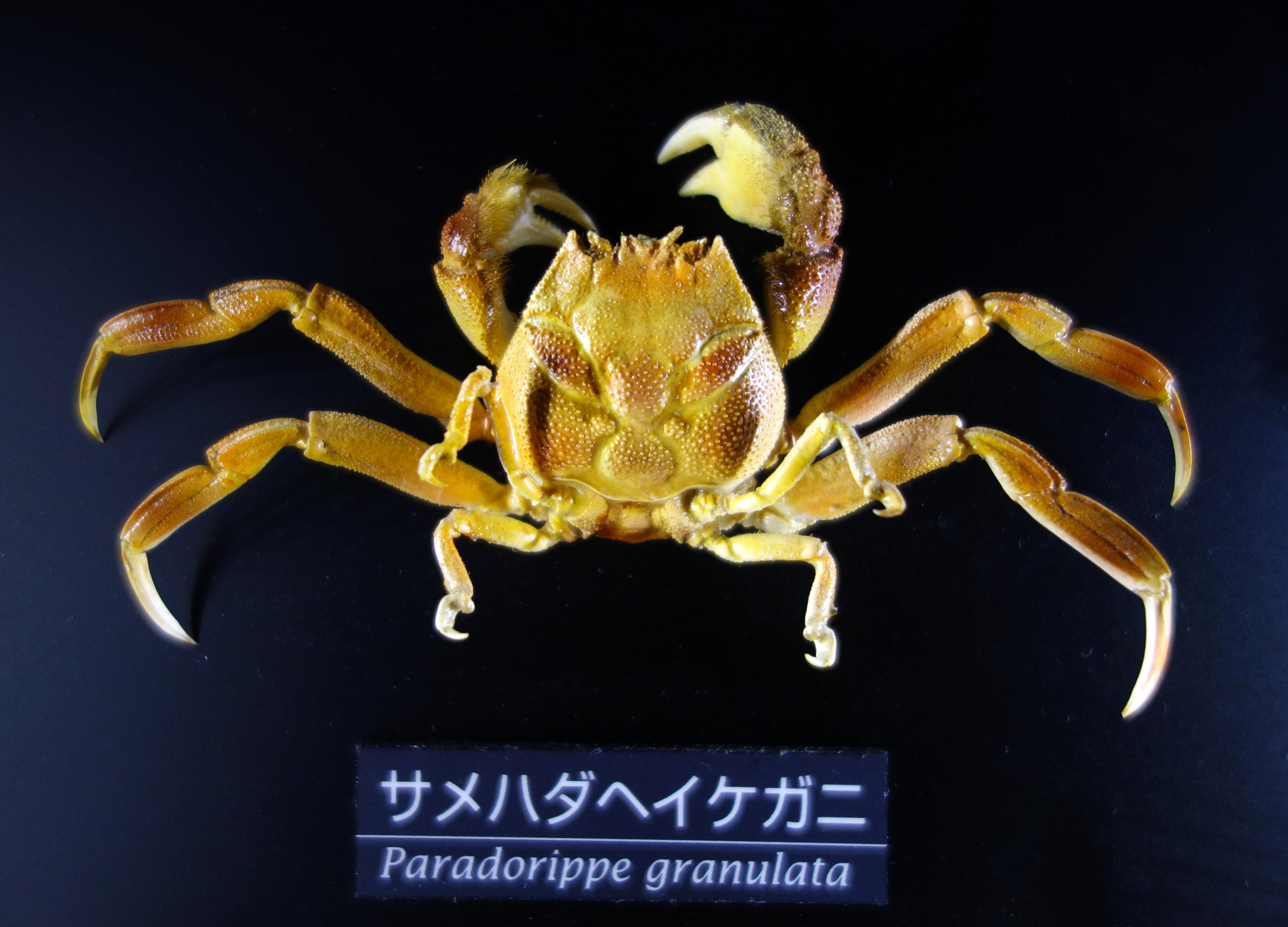 Exhibit in the National Museum of Nature and Science, Tokyo, Japan.